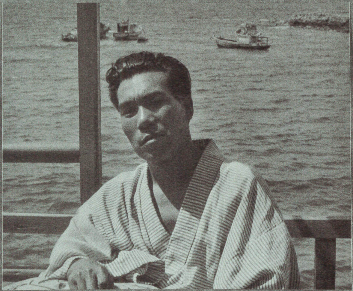 Teikō Shiotani (塩谷定好, 1899–1988), when aged 35. Photograph from 1934 or 1935; photographer unknown.